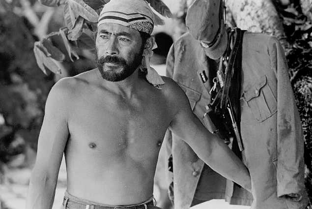 Toshiro Mifune wearing bandana